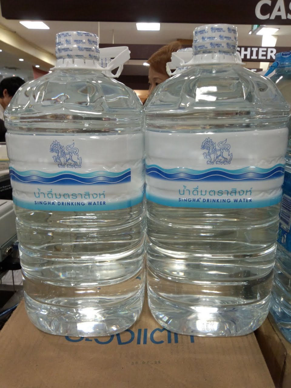 Shingha Drinking Water, type of 6 Liters